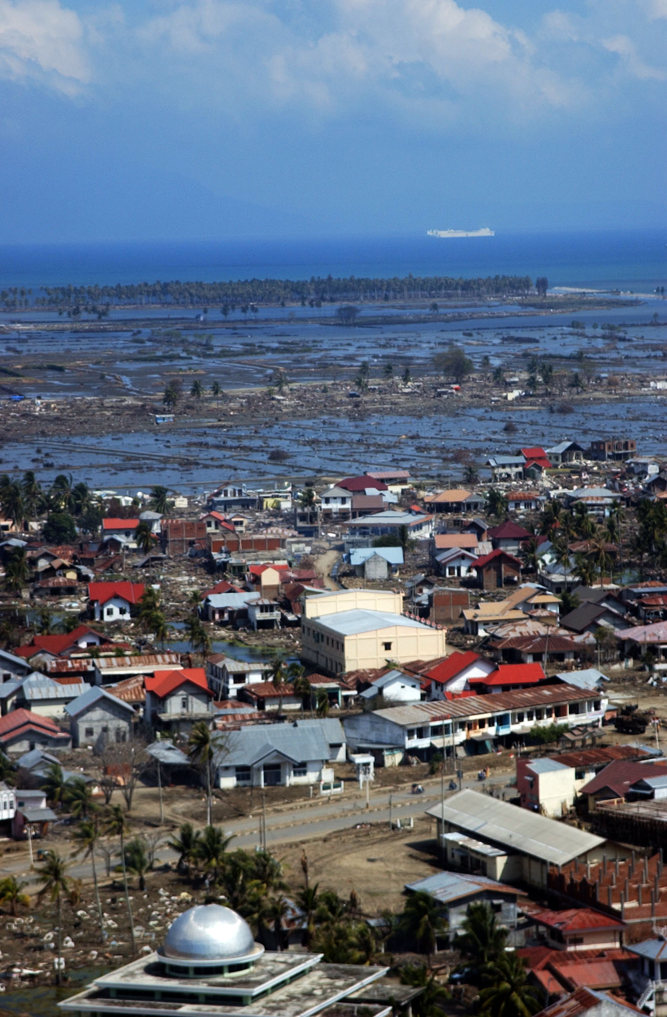 Banda Aceh, Sumatra, Indonesia (Feb. 12, 2005) - The Military Sealift Command (MSC) hospital ship USNS Mercy (T-AH 19) cruises off the coast of Banda Aceh on the island of Sumatra, Indonesia. Mercy is serving as an enabling platform to assist humanitarian operations ashore in ways that host nations and international relief organization find useful. Mercy is currently off the waters of Indonesia in support of Operation Unified Assistance, the humanitarian relief effort to aid the victims of the tsunami that struck Southeast Asia.